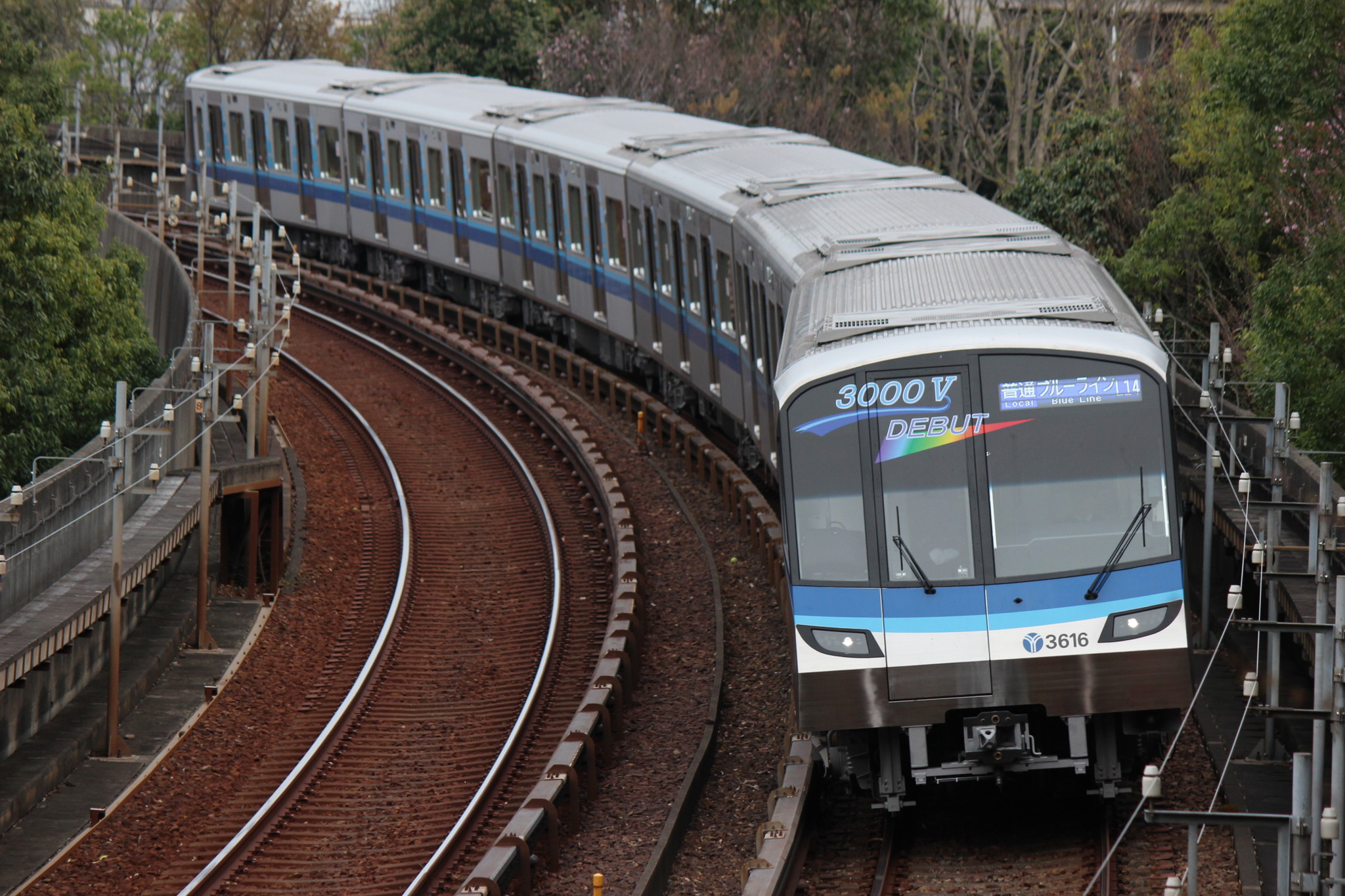 Yokohama Subway 3000V series EMU set 61